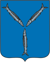 The coat of arms of the town of Saratov in 1781 year.